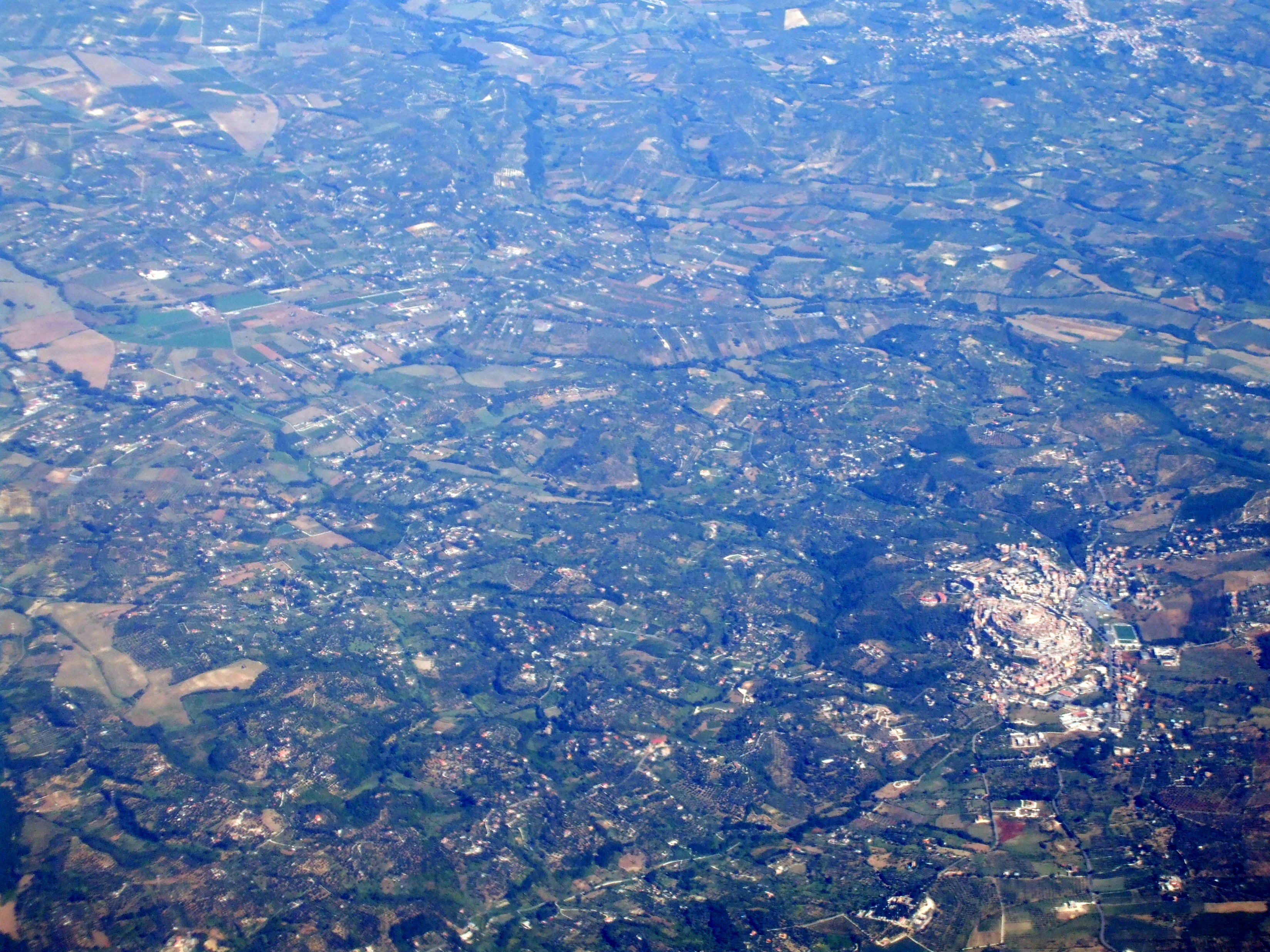 Palombara Sabina as seen from an airplane.